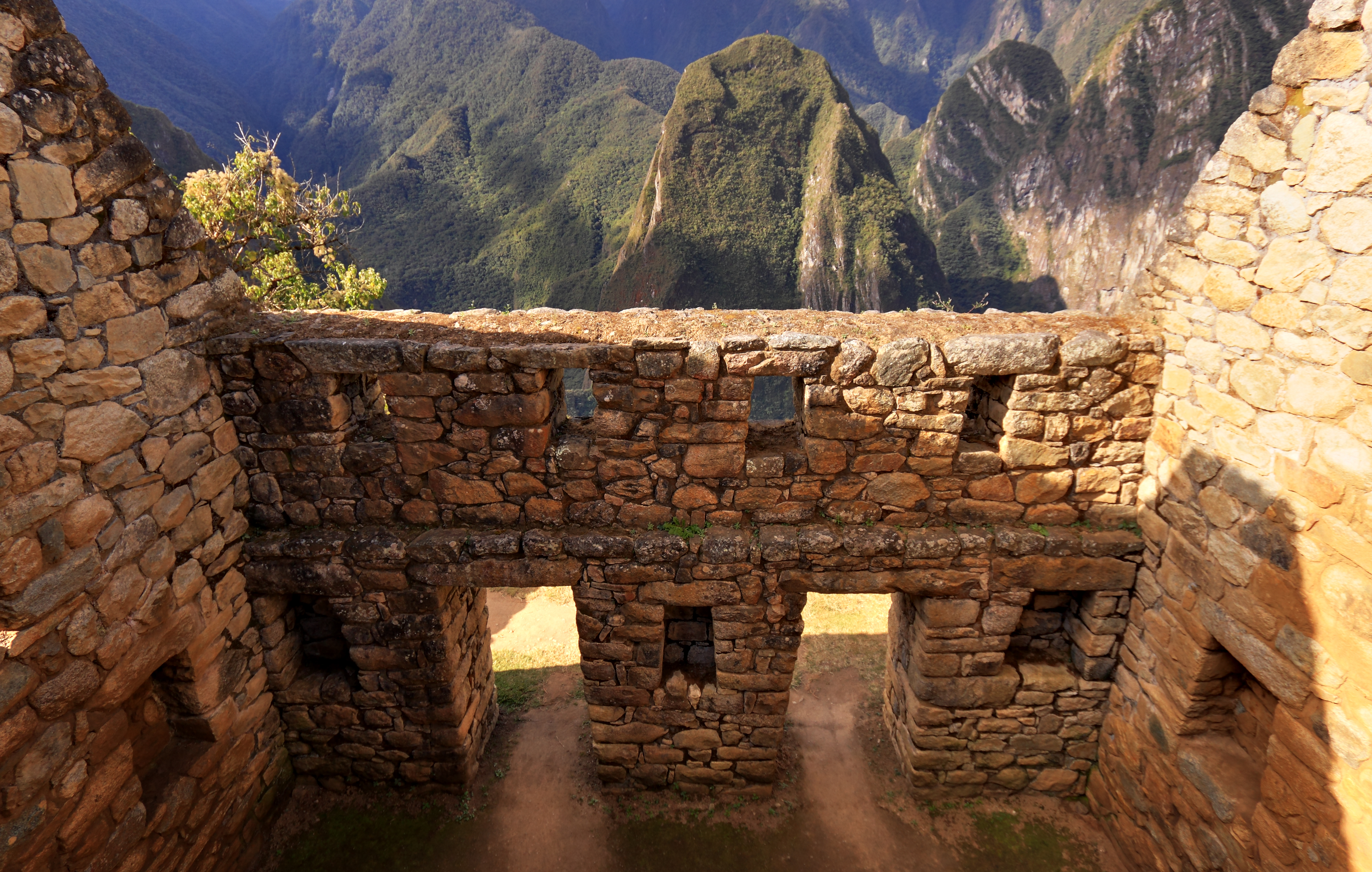 Please, have this description accessible to all by translating it in different languages.